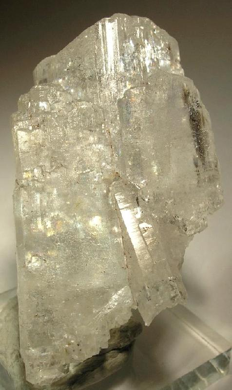 Sellaite Locality: Serra das Éguas, Brumado (Bom Jesus dos Meiras), Bahia, Northeast Region, Brazil (Locality at ) From Carlos Barbosa's Personal Collection, comes this huge, gemmy, complete-all-around crystal of the extremely rare phosphate sellaite. I know it looks like a blobby white rock in the pics, but it "is what is is" and is also somewhat more visually appealing in person I can assure you. Extremely significant and hard to find, in such size! 4.2 x 2.4 x 2 cm